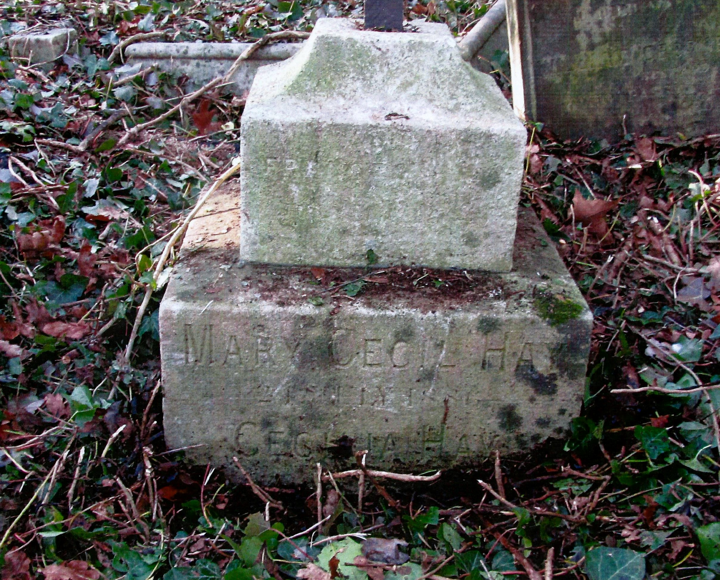 Highgate East cemetery England plot 26165